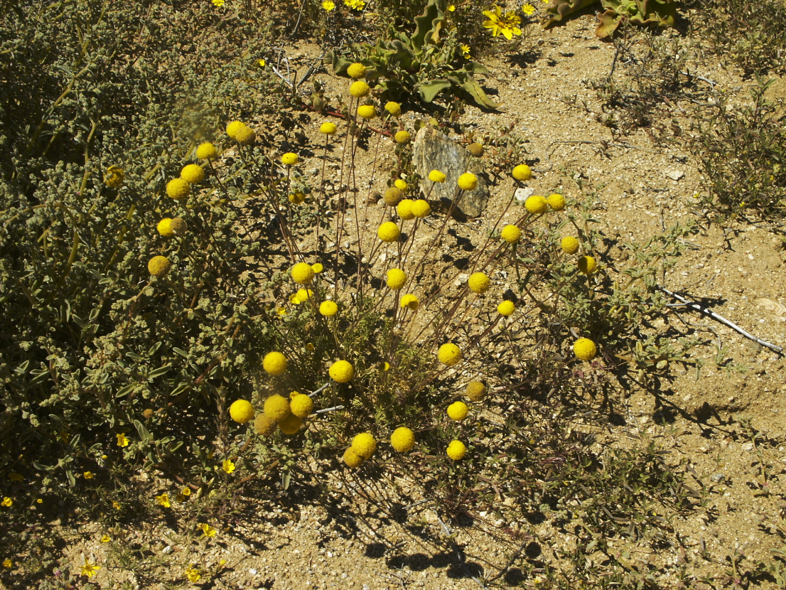 Brass Buttons, Yellow Marbles (Cotula barbata DC.), Namaqualand, flowering Desert, Landscape South Africa, Goegap Nature Reserve, Northern Cape, South Africa